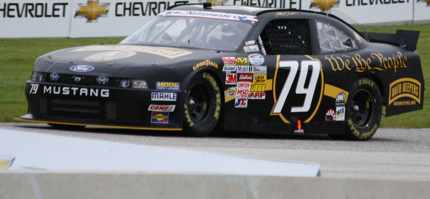 The NASCAR Nationwide car of Jeffrey Earnhardt during the w:2013 Johnsonville Sausage 200 at Road America.